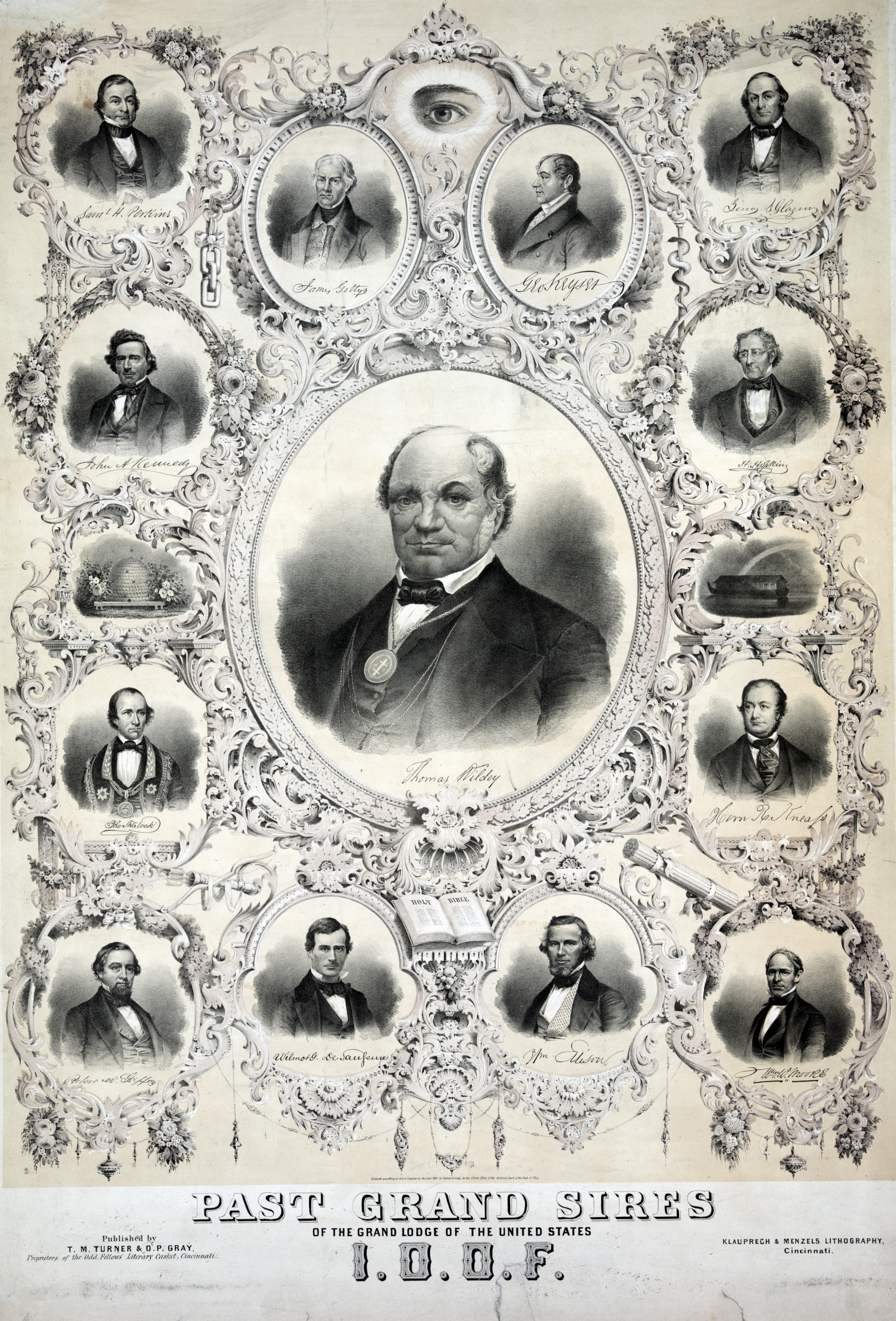 "Past Grand Sires of the Grand Lodge of the United States I. O. O. F." Portraits of members of the North American chapter of the Independent Order of Odd Fellows. From left to right and top to bottom: Samuel H. Perkins, James Gettys, George Keyser, Henry B. Glazin, John A. Kennedy, Thomas Wildey (founder), Howell Hopkins, Thomas Sherlock, Horn R. Kneass, Robert H. Griffiths, Wilmot Gibbes De Saussure, William Ellison, William W. Moore.